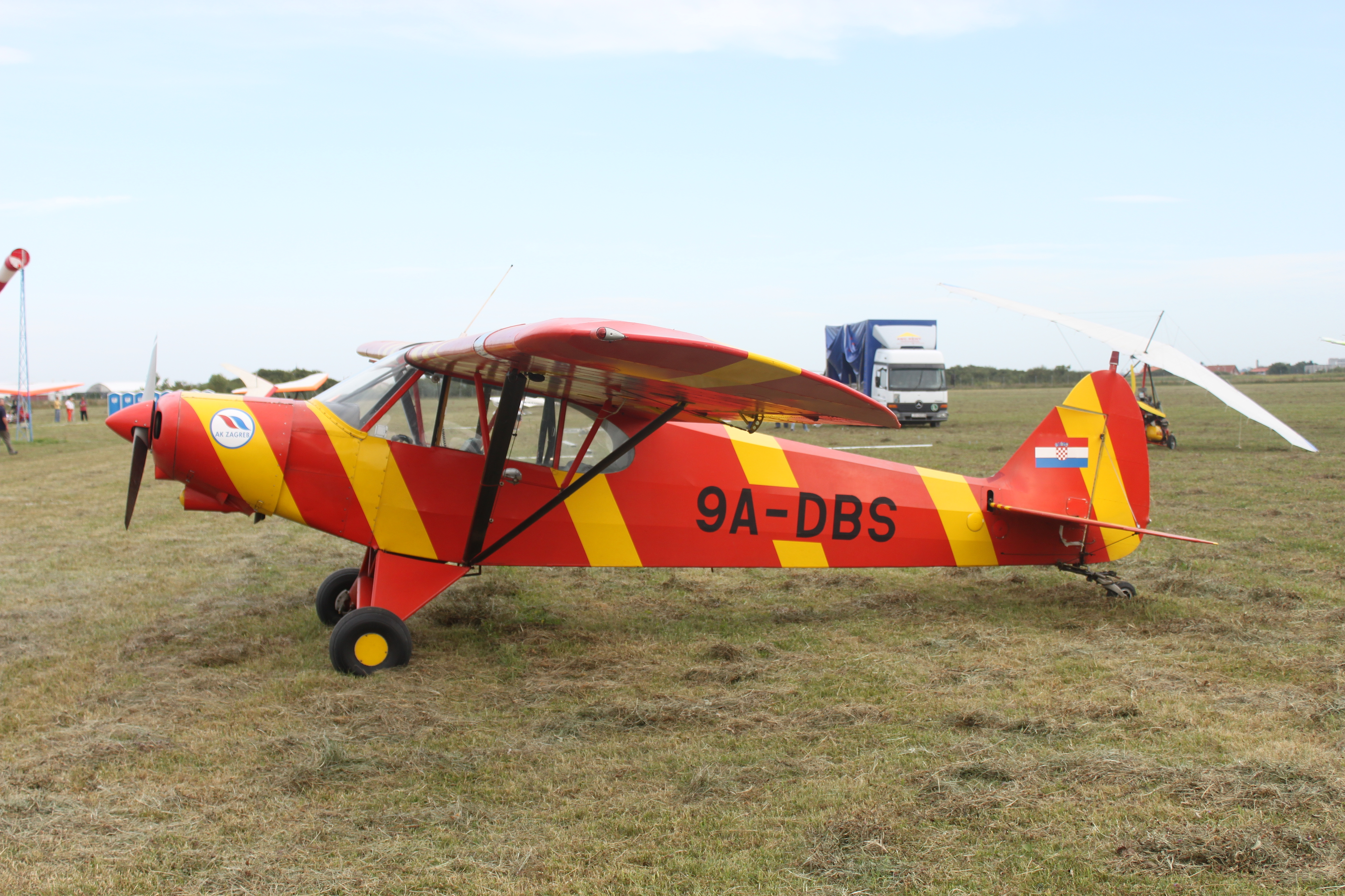 9A-DBS, Piper Cub at the airport Lučko, Croatia.